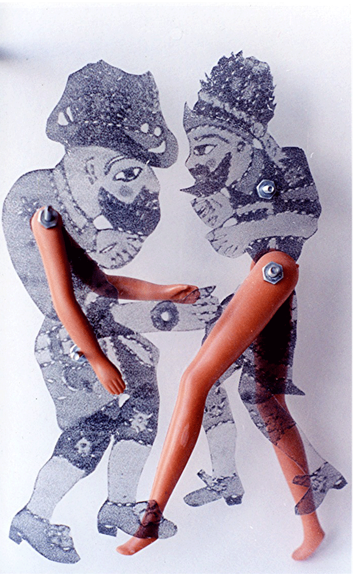 Sinem Banna's work "Shadows at Noon" at the 2004 Athens Olympics, for which Banna was selected as a cultural ambassador of art for the United States and Turkey. The work received a grant under the Artiade "Olympics of Visual Art".